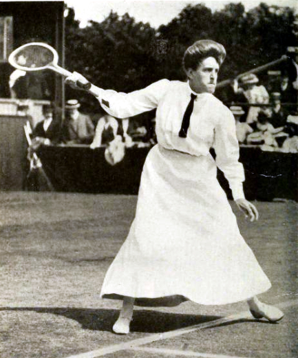 English tennis champion Dorothea Douglass Lambert Chambers, making a forehand drive.